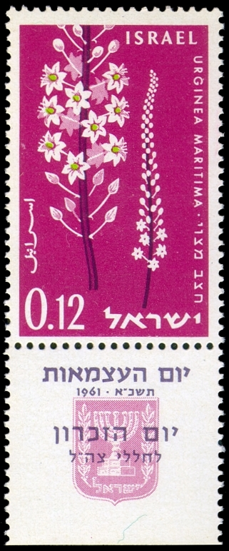 Thirteenth Independence Day stamp - 0.12 Israeli lira - Urginea Maritima. Inscription on tab: "The Thirteenth Independence Day", "Memorial Day for the Fighters for Independence"